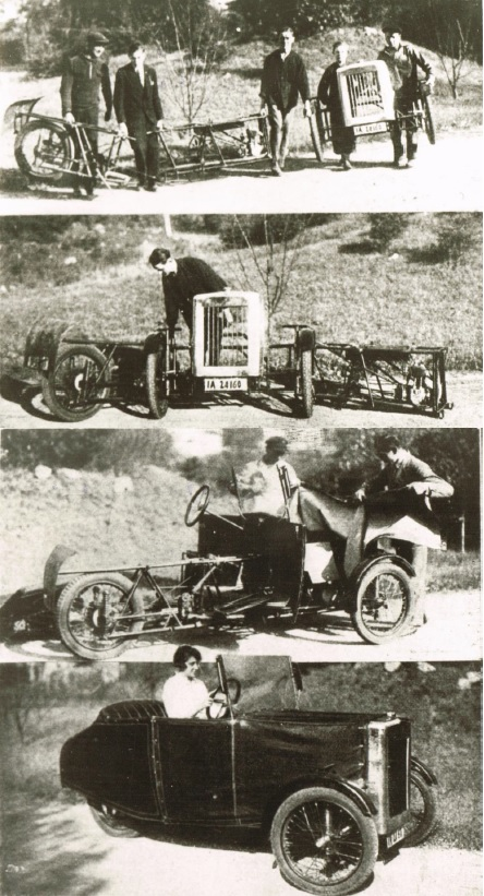 1928/1929 Engelbert Zaschka presented the first folding car in Berlin.